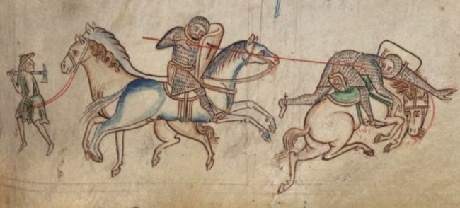 Richard Marshal unhorses Baldwin of Guines. From the Historia Major of Matthew Paris, Cambridge, Corpus Christi College Library, vol 2, MS 16, fol. 88r - Parker Library note indicates: Fight of Mareschall, [3rd Earl of Pembroke] at Monmouth [on November 25, 1233]. A man [groom] leads two riderless horses off on left.